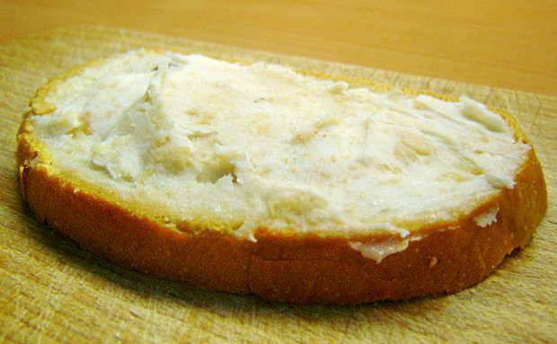 Bread spread with lard